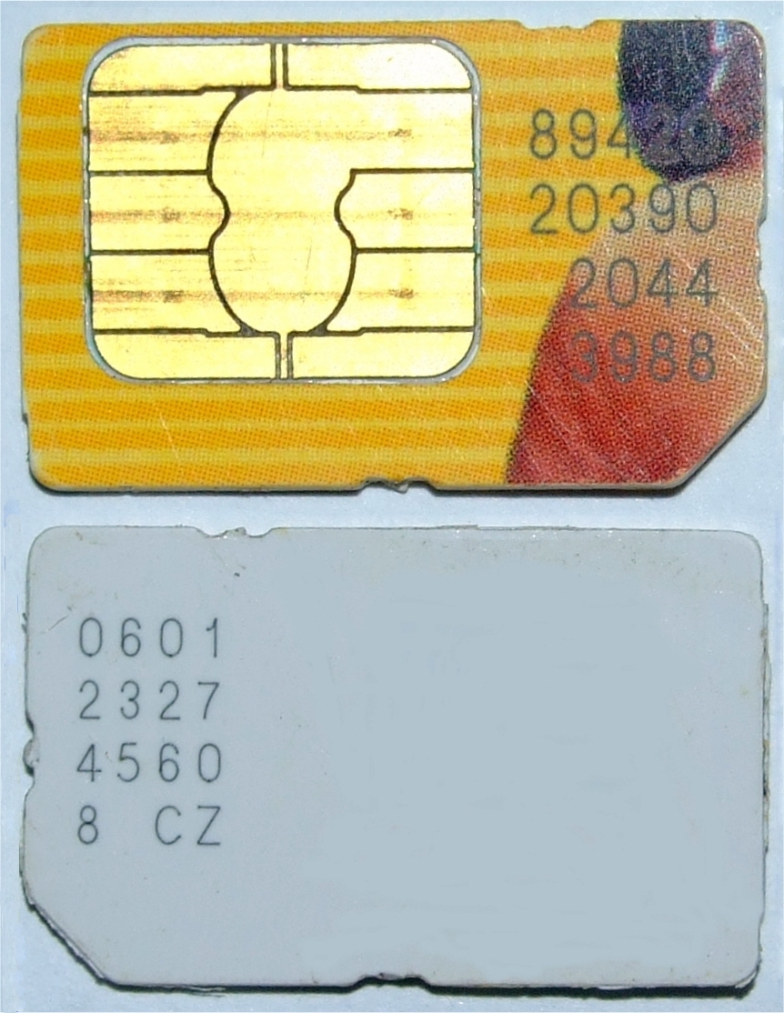 Two cellphone SIM cards (bottom and top)